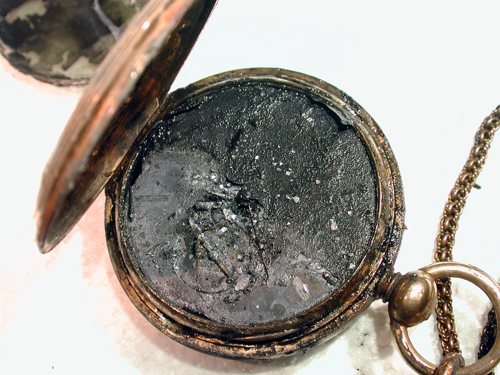 Charleston Navy Yard, S.C. (Mar. 7, 2003) -- The pocket watch that belonged to the commanding officer of the Civil War-era submarine “H.L. Hunley,” Lt. George Dixon. The watch was retrieved from the Hunley and archeologists hope to use it to determine the time the sub sank on February 17, 1864. U.S. Navy photo. (RELEASED)